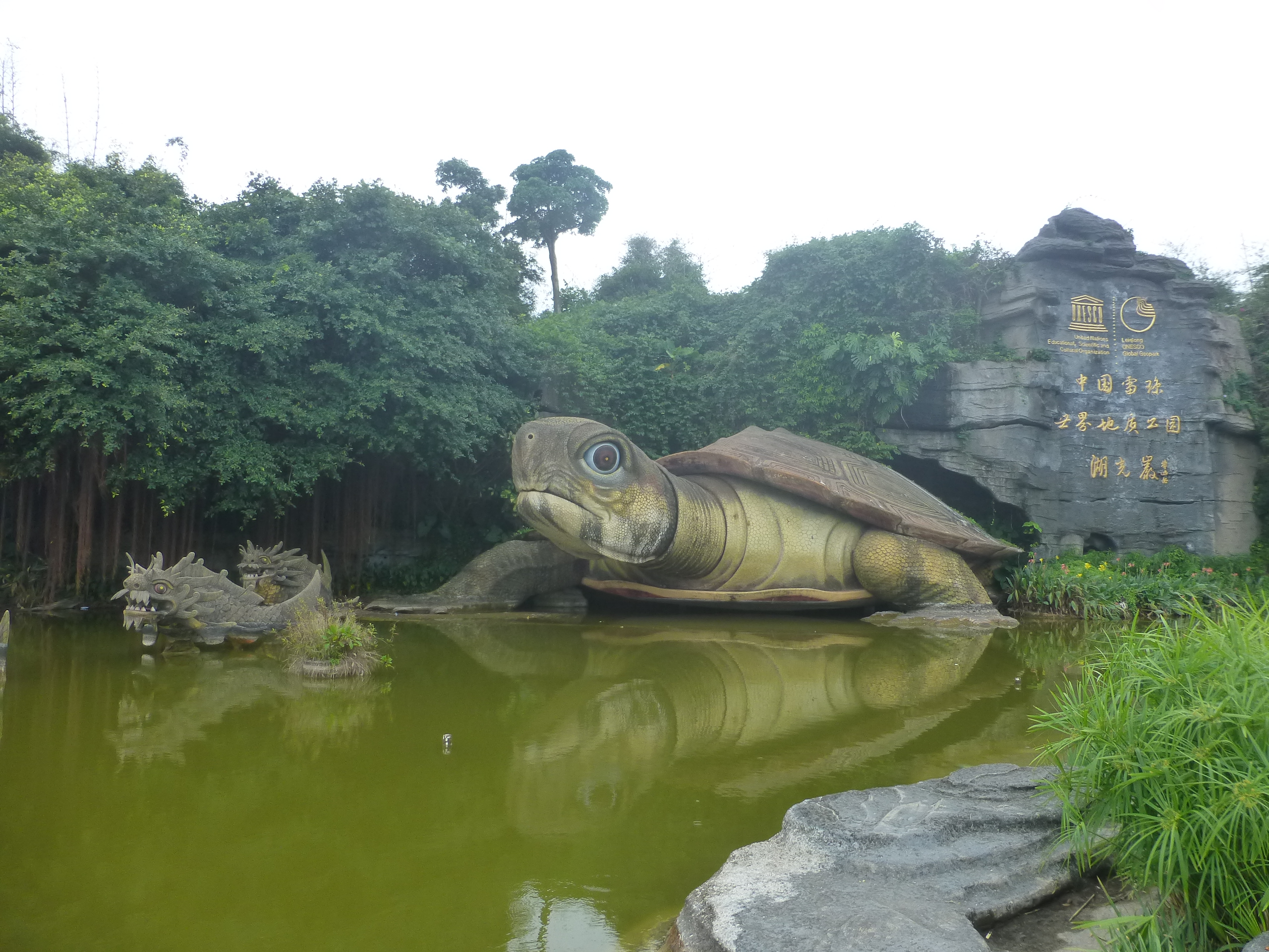 "Dragon Fish and Divine Turtle", a group of sculptures at the plaza outside Huguangyan Park (Huguang Town, Mazhang District, Zhanjiang)